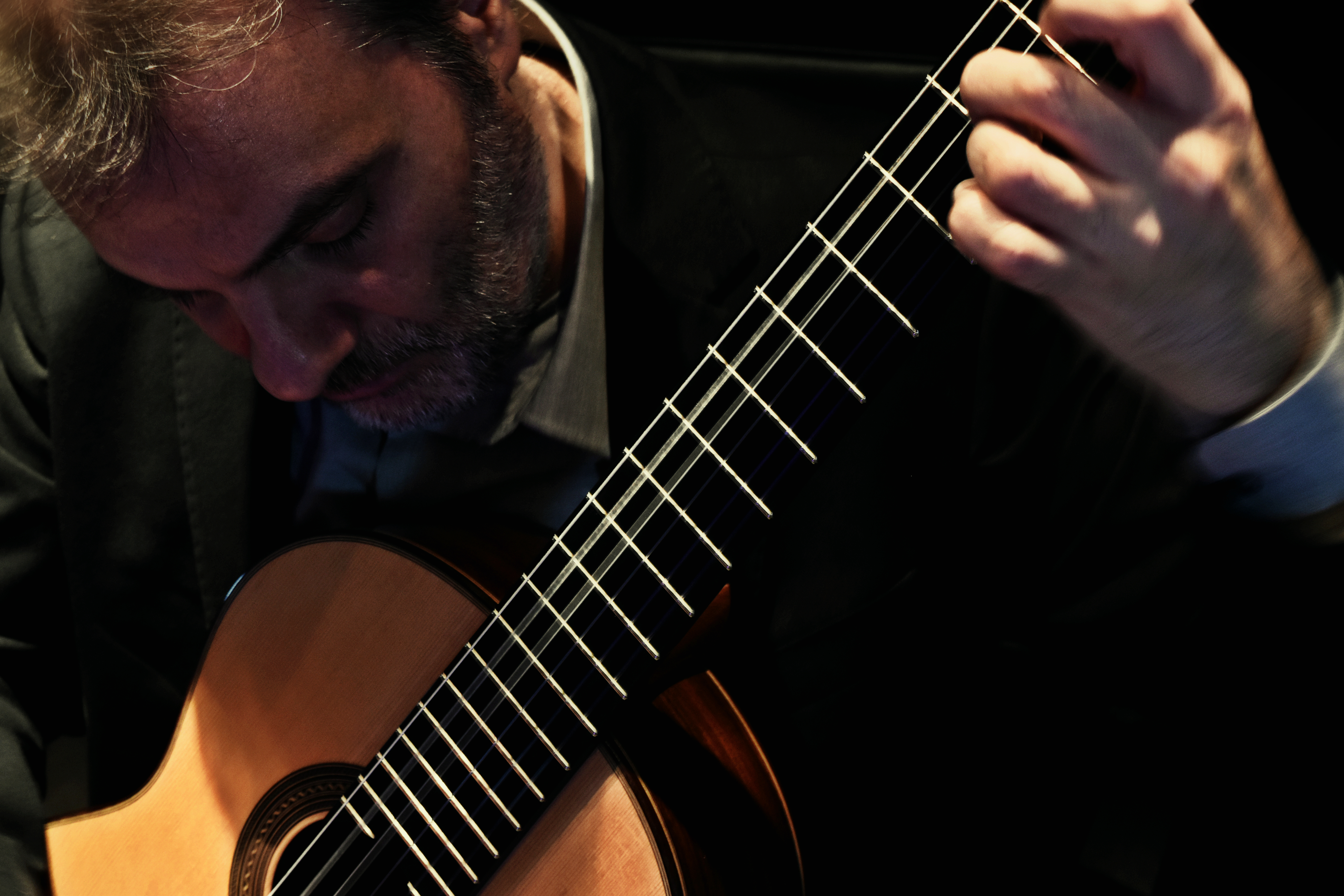 Portrait of Carlo Marchione taken in October of 2017 by Merce Font